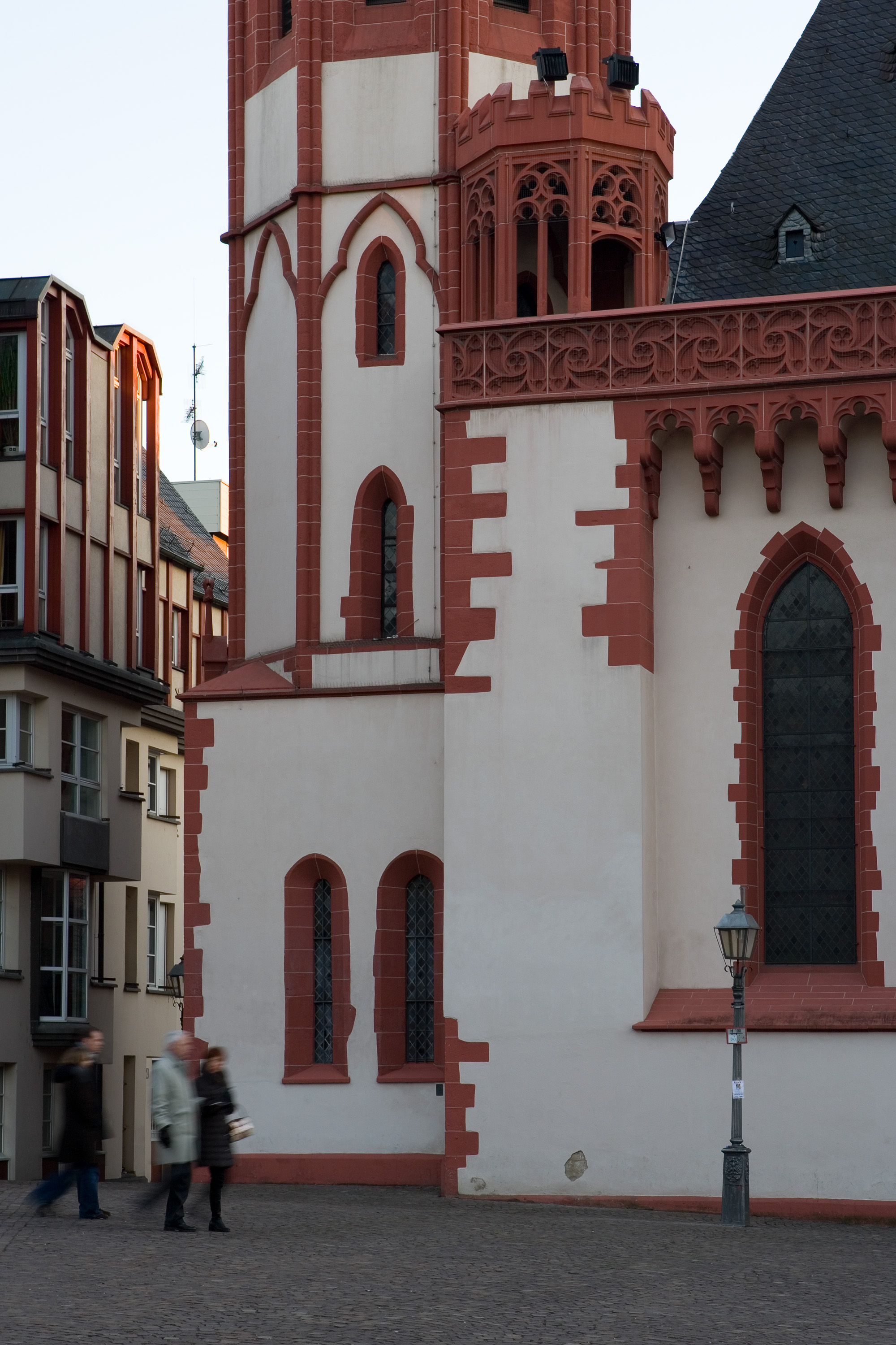 Frankfurt on the Main: Old Saint Nicholas Church, detail of the late-romanic / early-gothic tower basement